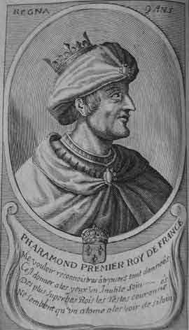 Pharamond, the first Duke of the Salian Franks.